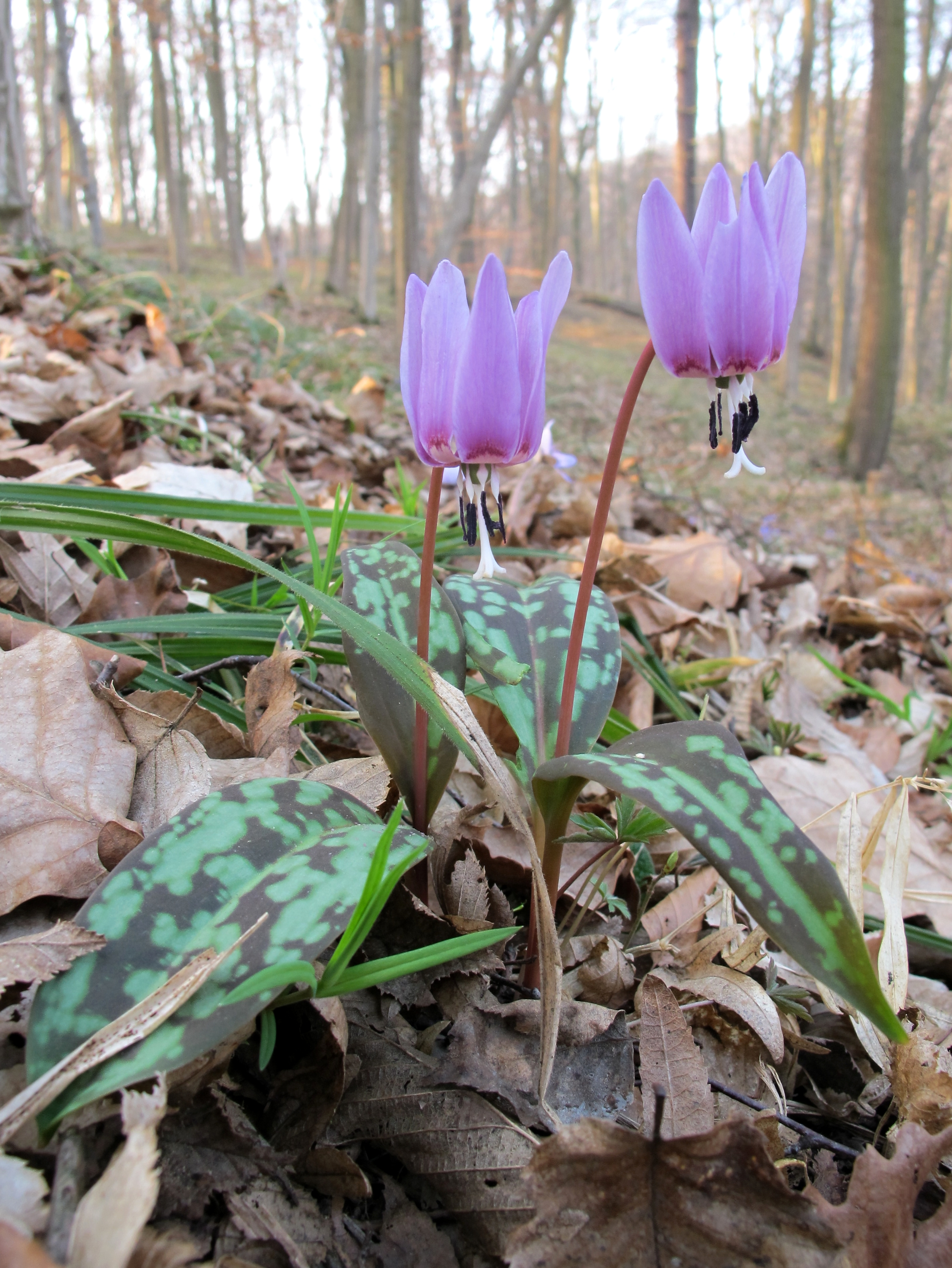 Erythronium dens-canis in national natural monument Medník near Hradištko pod Medníkem, Prague-West District (Czech Republic)